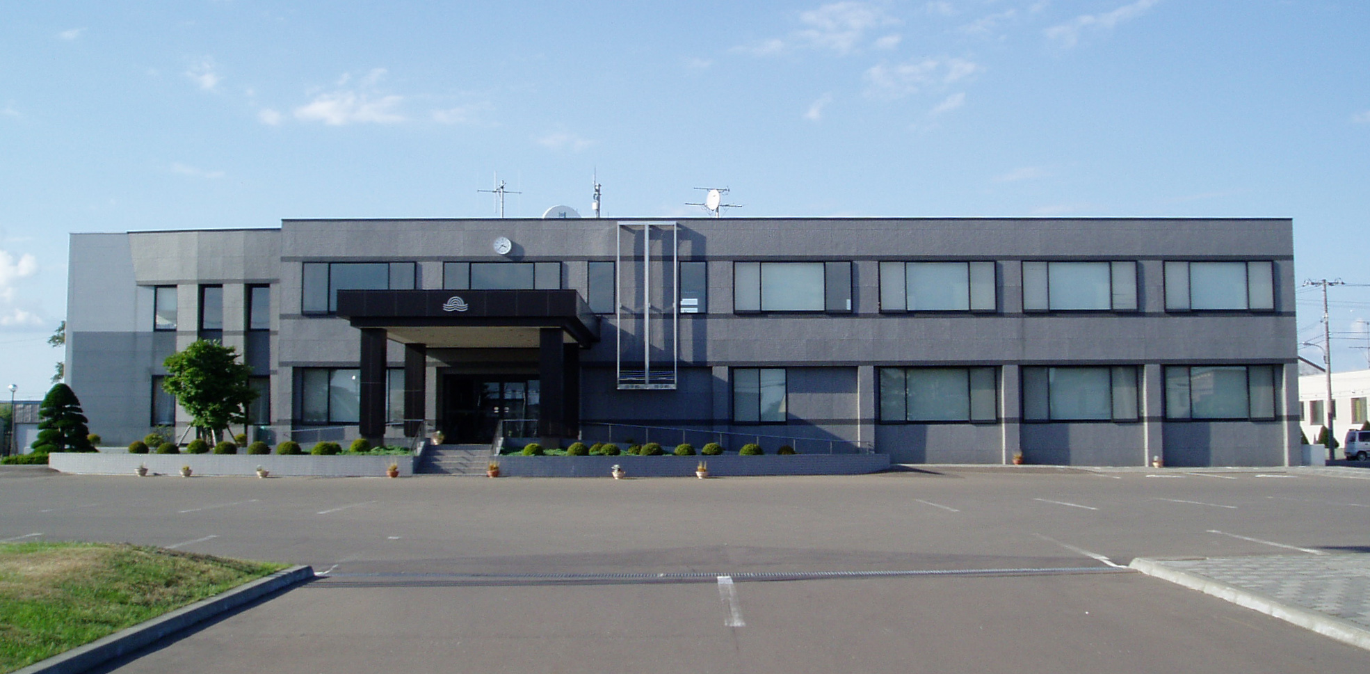 Town hall of Shinshinotsu, Hokkaidō.